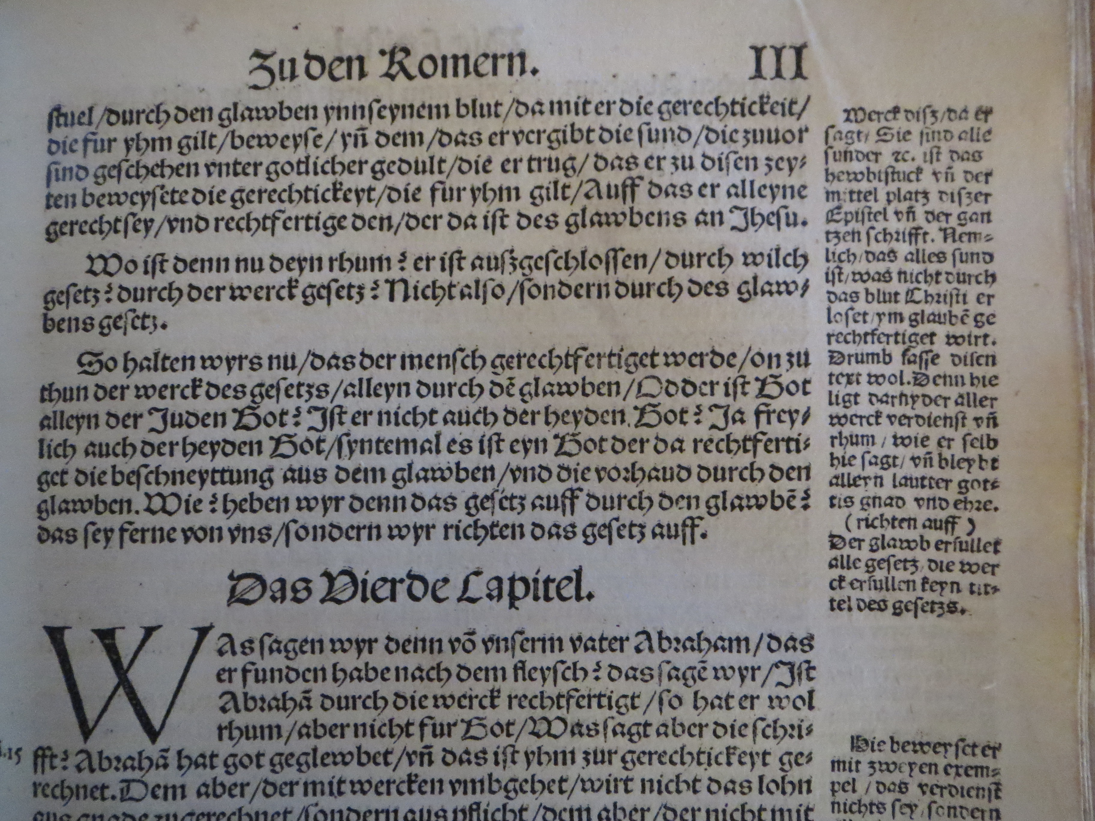 Romans 3 in Martin Luther's September Testament, 1522; this copy in JHU Hofmann Collection, Baltimore